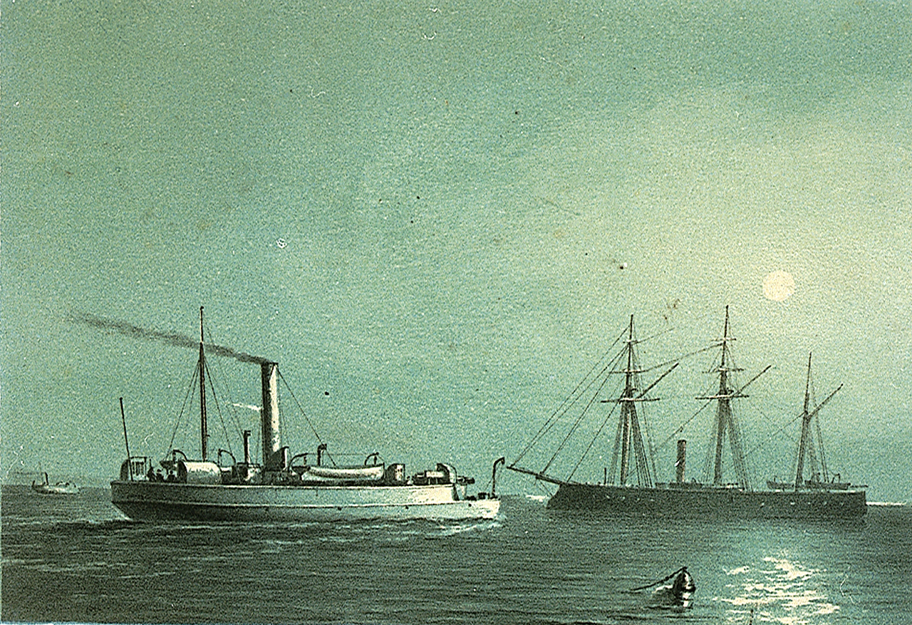 HMS Enterprise & H.M.G.B Comet Moonlit scene depicting the gunboat 'Comet' in the left foreground and 'Enterprise', an iron clad screw sloop, in the middle ground to the right. The scene is calm and serene, perhaps reflecting a period of peace for the Channel fleet.